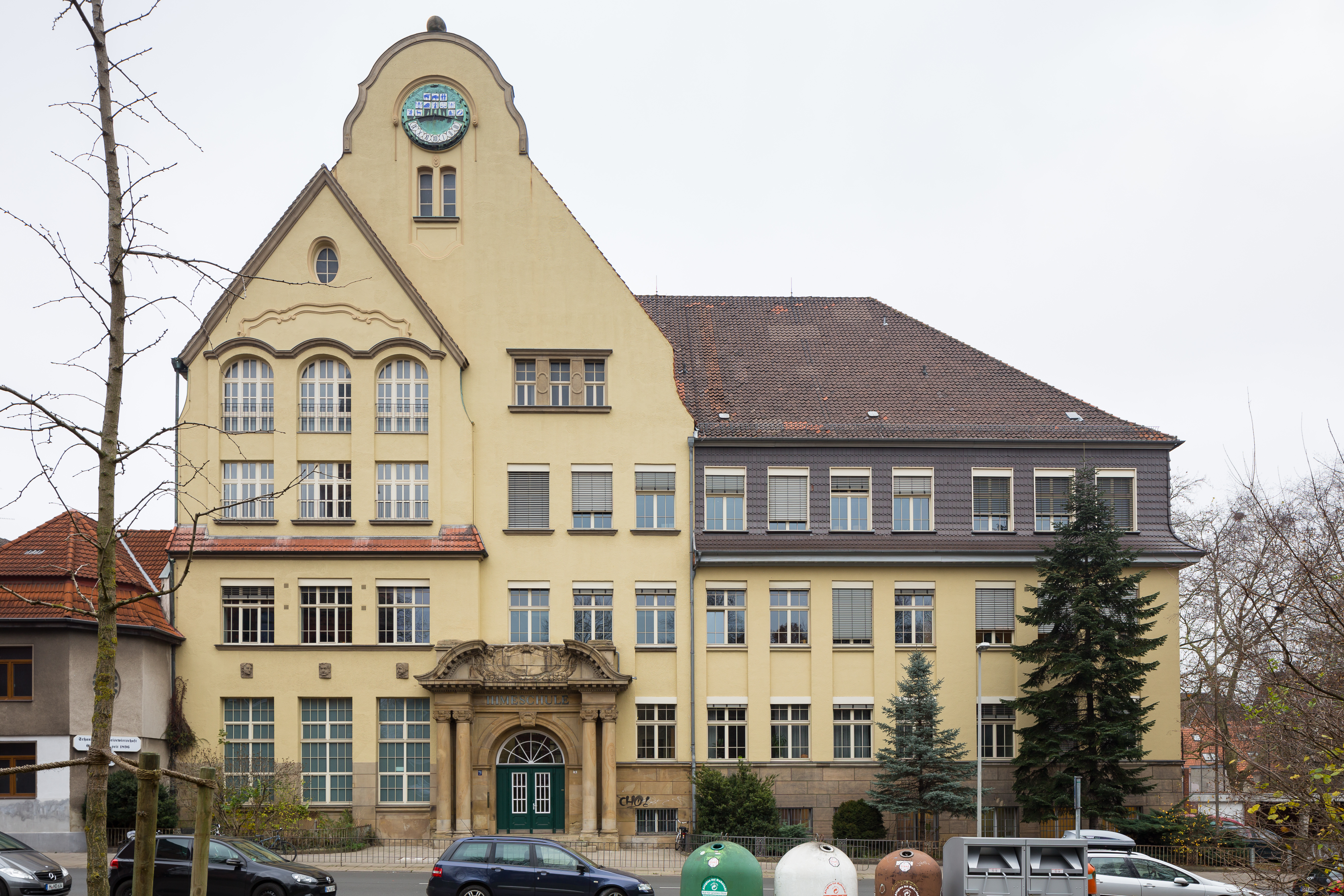 Ihmeschule school building located at Badenstedter Strasse no. 14 in Linden-Mitte district of Hannover, Germany.